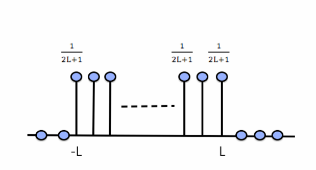 simple smoother filter